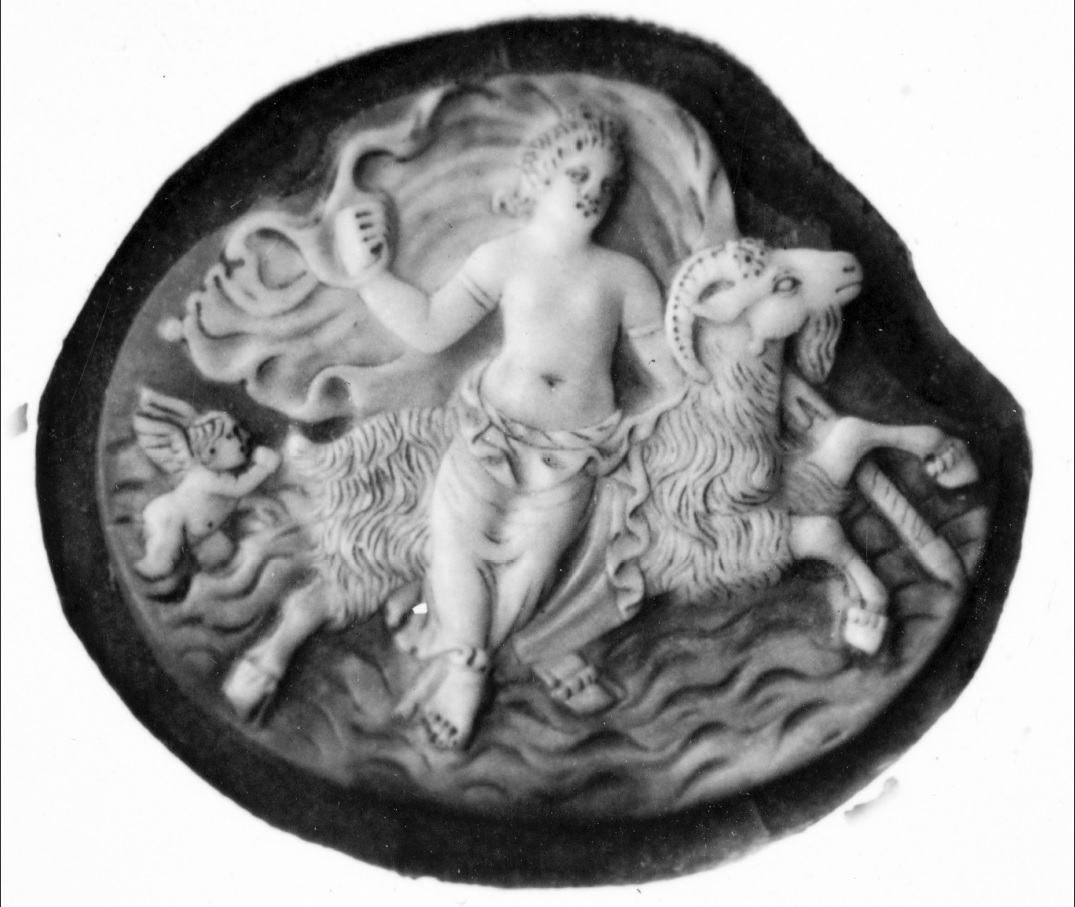 Agate onyx cameo of Aphrodite Epitragia, 1st century BC - 2nd century. National Archeological Museum of Naples. Inv.-Nr. 25845/13 [1] [2]